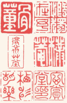 Compilation of six Impressions of Ming Dynasty Seal by Hu Zhengyan